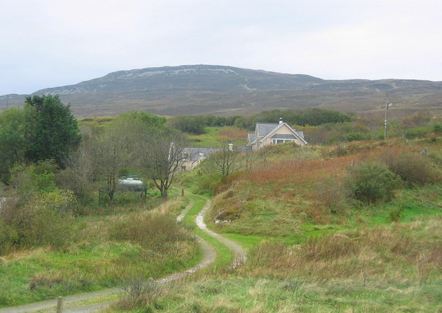 Heaste. Crofting township on a strip of limestone. Looking west to Beinn nan Carn.